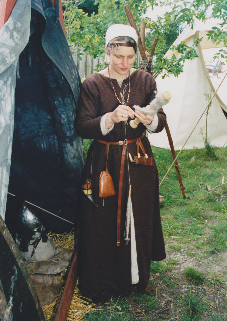 Viking female a reenactor using the drop spindle in Holland